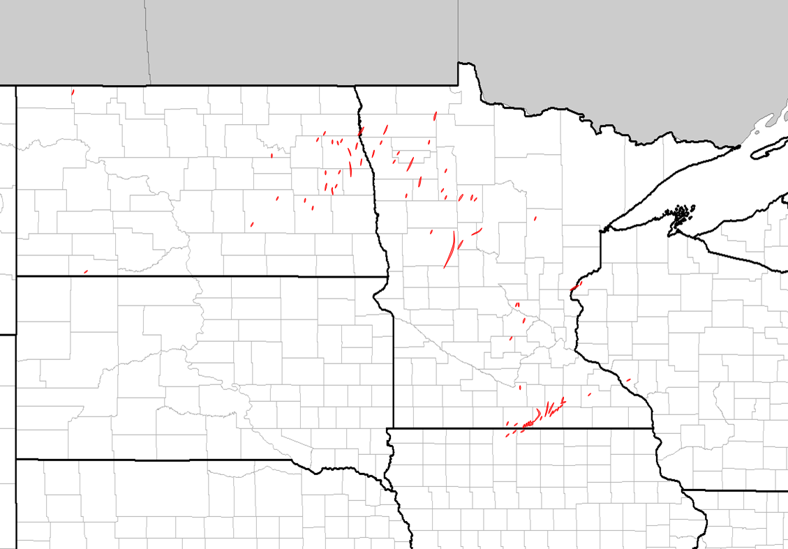 Tracks of all 74 tornadoes that touched down across the Northern Plains on June 17, 2010